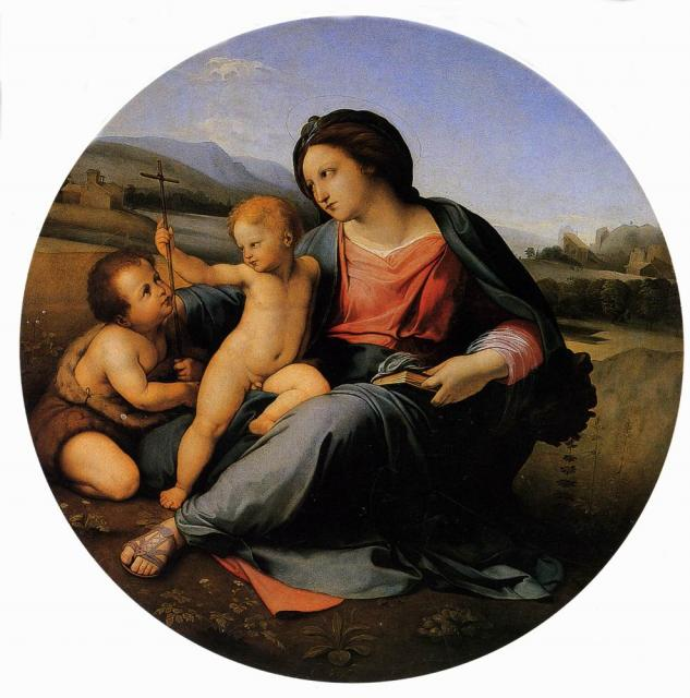 Bruni Fidelio (Fyodor), The Alba Madonna. 1837. Copie of Raphael's "Alba Madonna" (1508, Nat.Gal., Washington DC). Oil on copper. St. Michael's Castle, St. Pitersburg, Russa